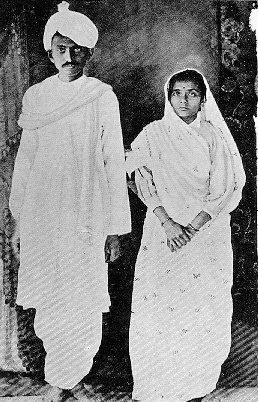 Gandhi and his wife Kasturbahi in January 1915 after their return to India.